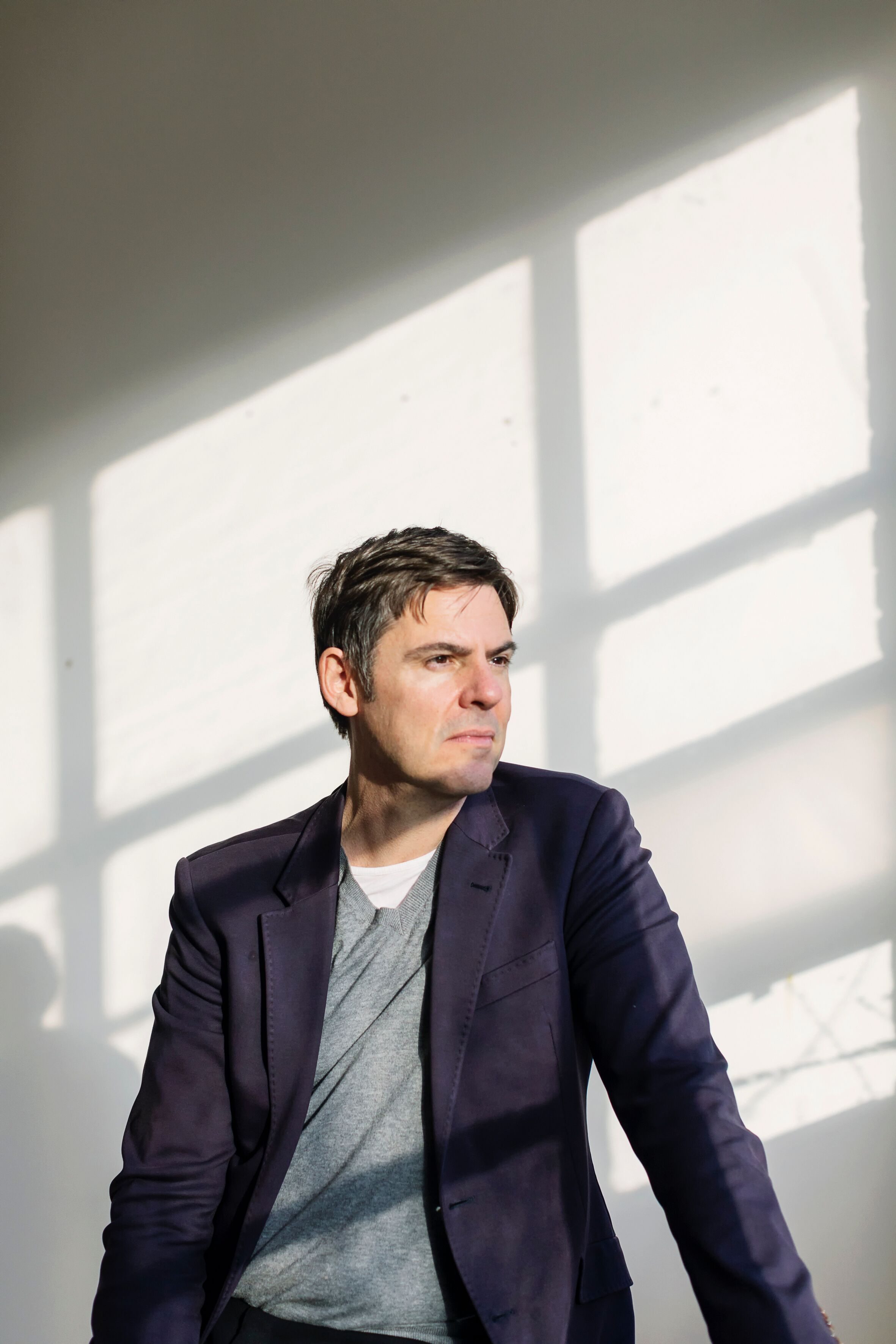 Photo of Robert Rowland Smith